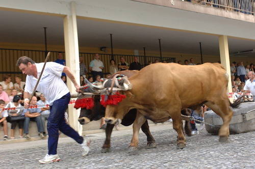 Dragging game with oxen in Urnieta, Basque Country.